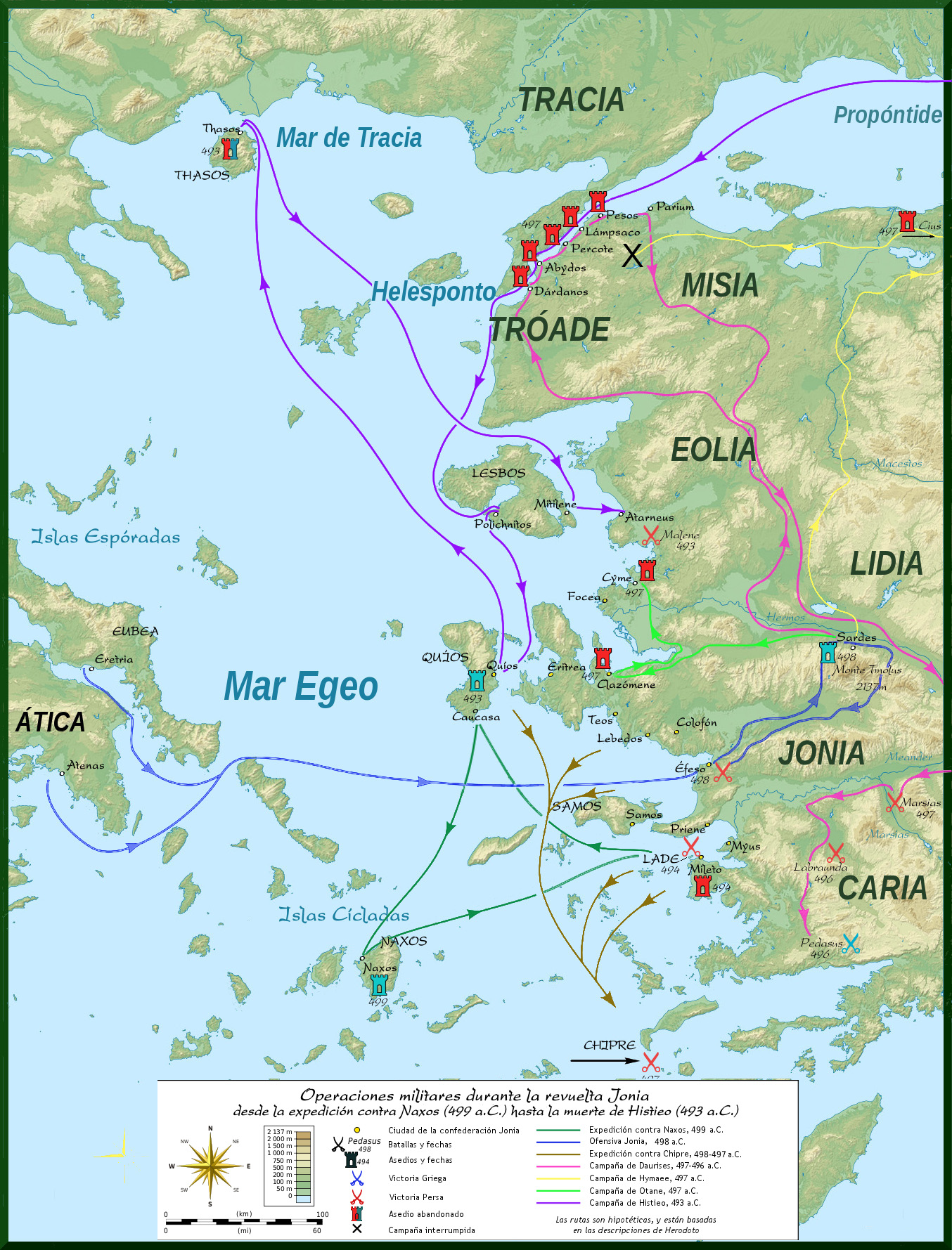 Map of the Ionian revolts before Persian Wars